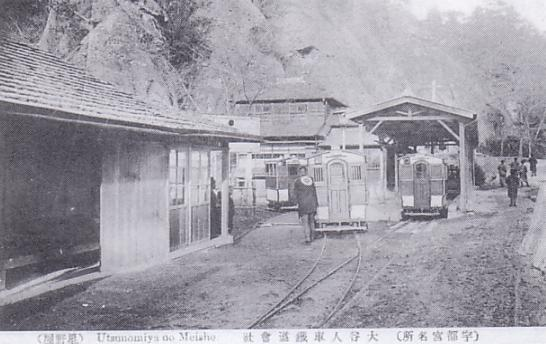 The head office of Utsunomiya jinsha kido.